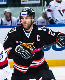 Amur Khabarovsk defenceman Vitaly Atyushov during KHL game on February 4, 2016.